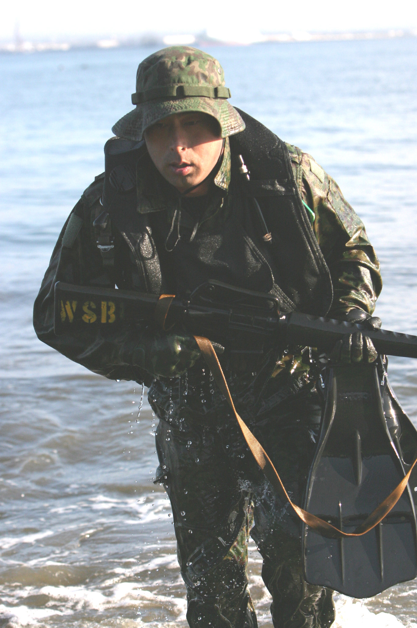 NAVAL AMPHIBIOUS BASE, CORONADO ISLAND, Calif. - A Japanese Ground Self Defense soldier exits the water and charges up the shore during a training exercise here Jan. 13. A company of 125 soldiers from the Land of the Rising Sun conducted Exercise Iron Fist alongside 30 Marines and sailors with Expeditionary Warfare Training Group Pacific, 1st Marine Expeditionary Force Jan. 9 - 27. The joint venture focused on amphibious warfare and was designed to improve the Japanese soldiers' ability to move from ship to shore.